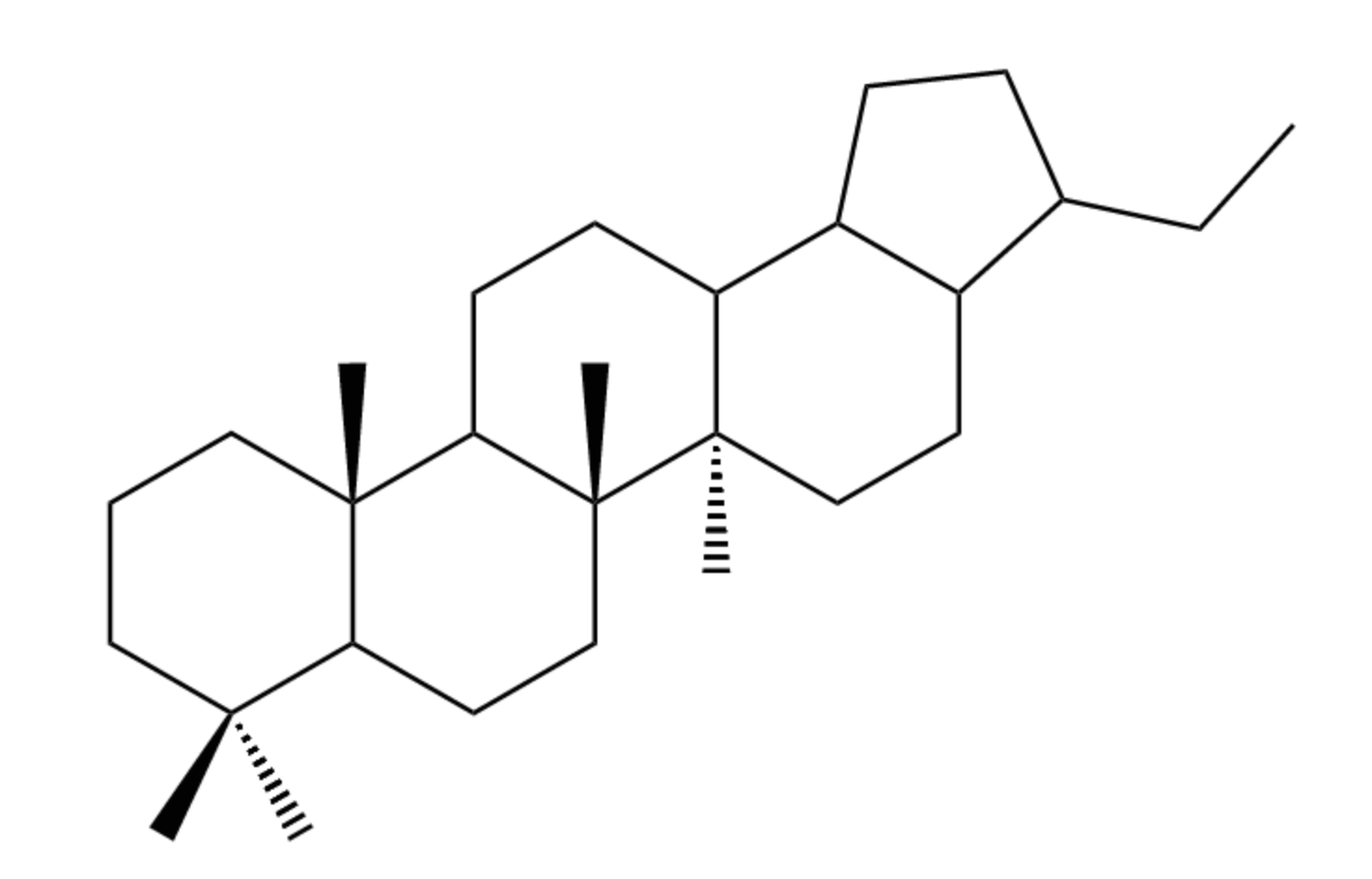 Chemical structure of 28,30-Bisnorhopane